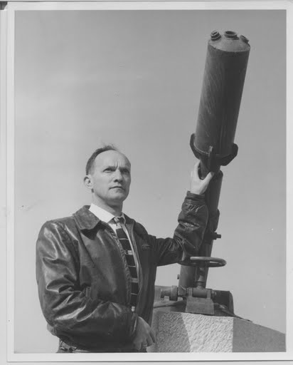 Meir Meivar, a former leader in Zefat.